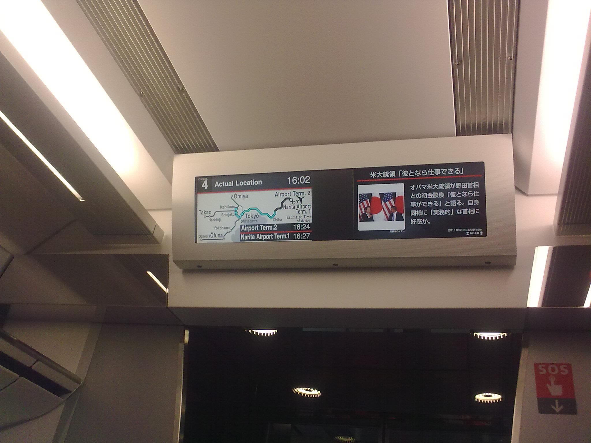 JR East E259 series Information monitor